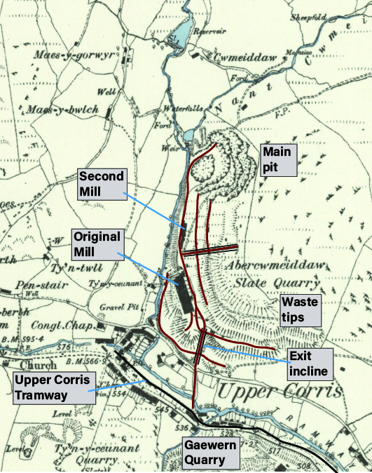 Map of the Abercwmeiddaw slate quarry in 1887, based on an extract of the Ordnance Survey map